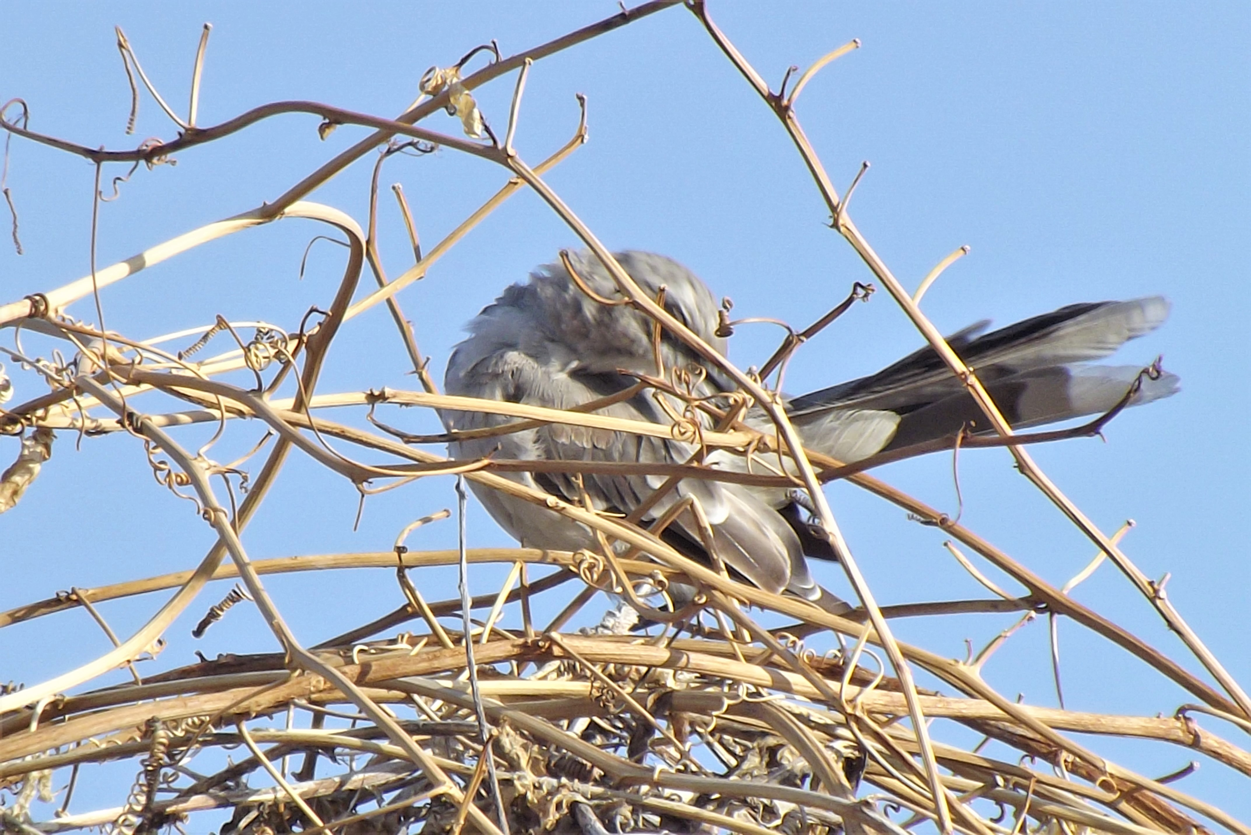 Tropical Mockingbird, preening their feathers.